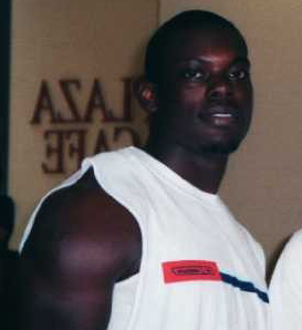 If used somewhere other than Wikipedia, Nelson, by name.